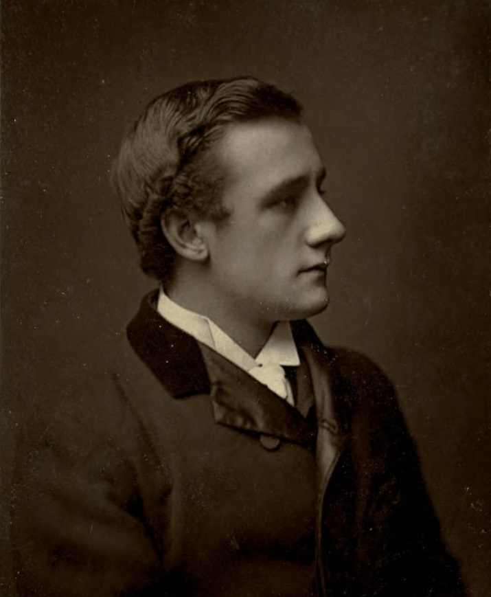 Fuller Mellish depicted in a book